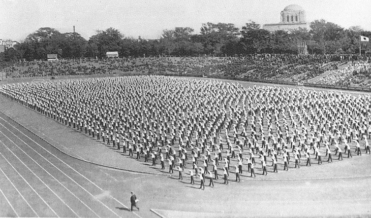 1933 Meiji Jingu Sports Festival